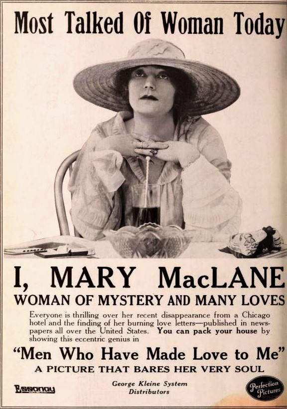 Advertisement for the American biographical film Men Who Have Made Love to Me (1918) with Mary MacLane, on page 2 (inside front cover) of the May 18, 1918 Exhibitors Herald.